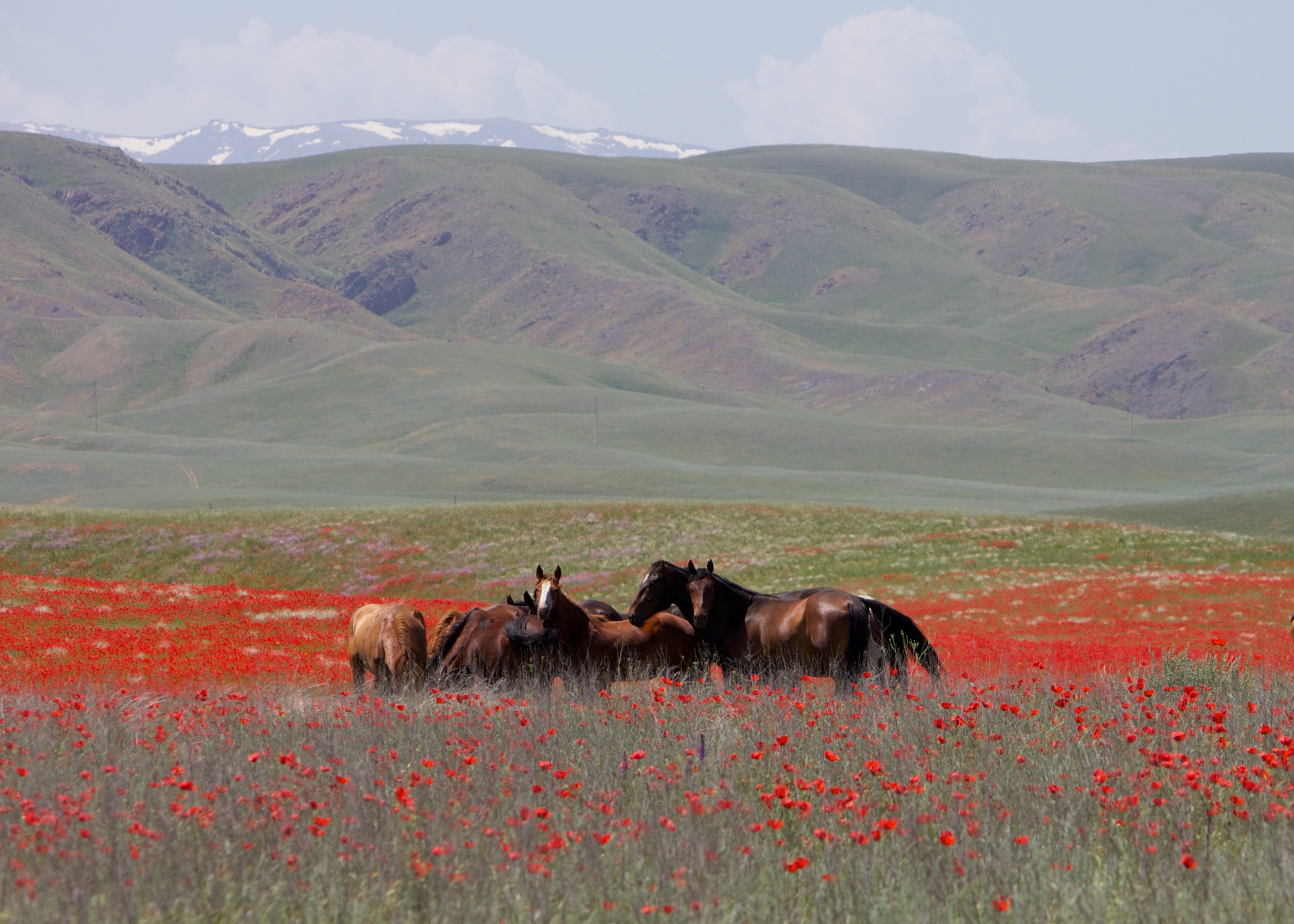 Horses in the poppy valley of Kazakhstan near city of Almaty